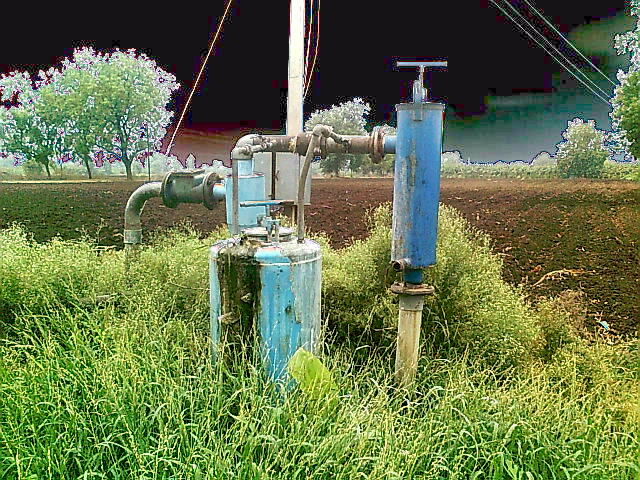 Tube well in a farm at Chinawal village, India